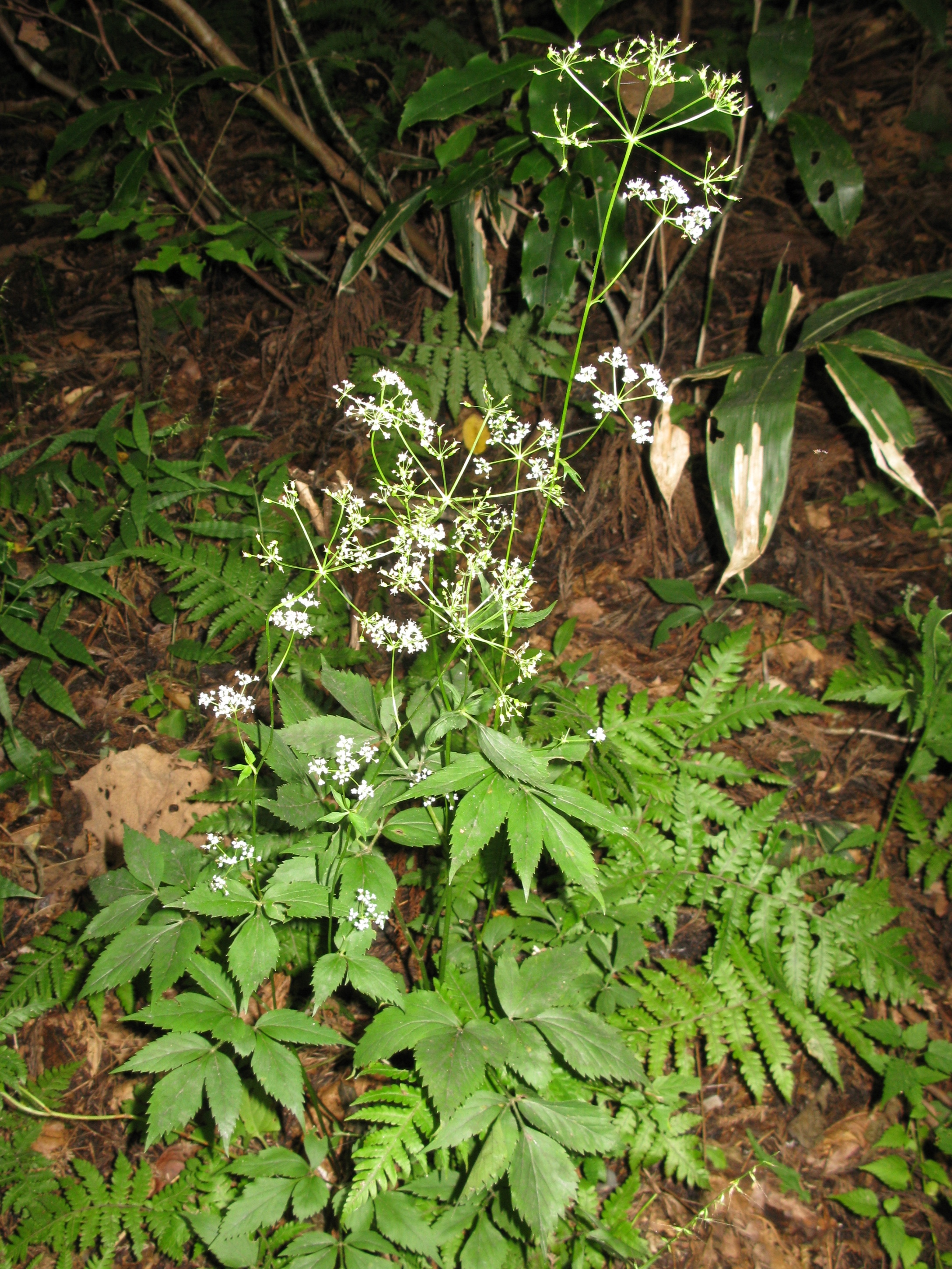 Spuriopimpinella calycina, Aizu area, Fukushima pref., Japan